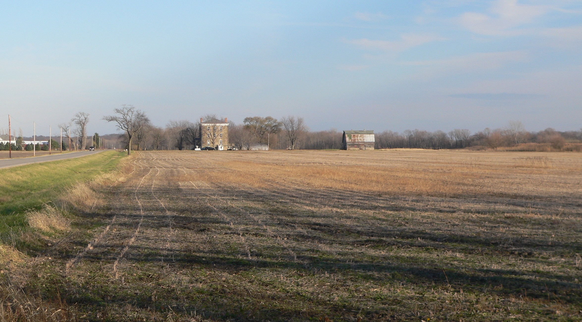 Old Kaskaskia Village, located on the north bank of the Illinois River east of North Utica, Illinois. The road at left is Dee Bennett Road. The river is out of the frame to the right, about 1,000 feet (300 m) south of the road. The building with three rows of windows to the right of the road is the Sulphur Springs Hotel.